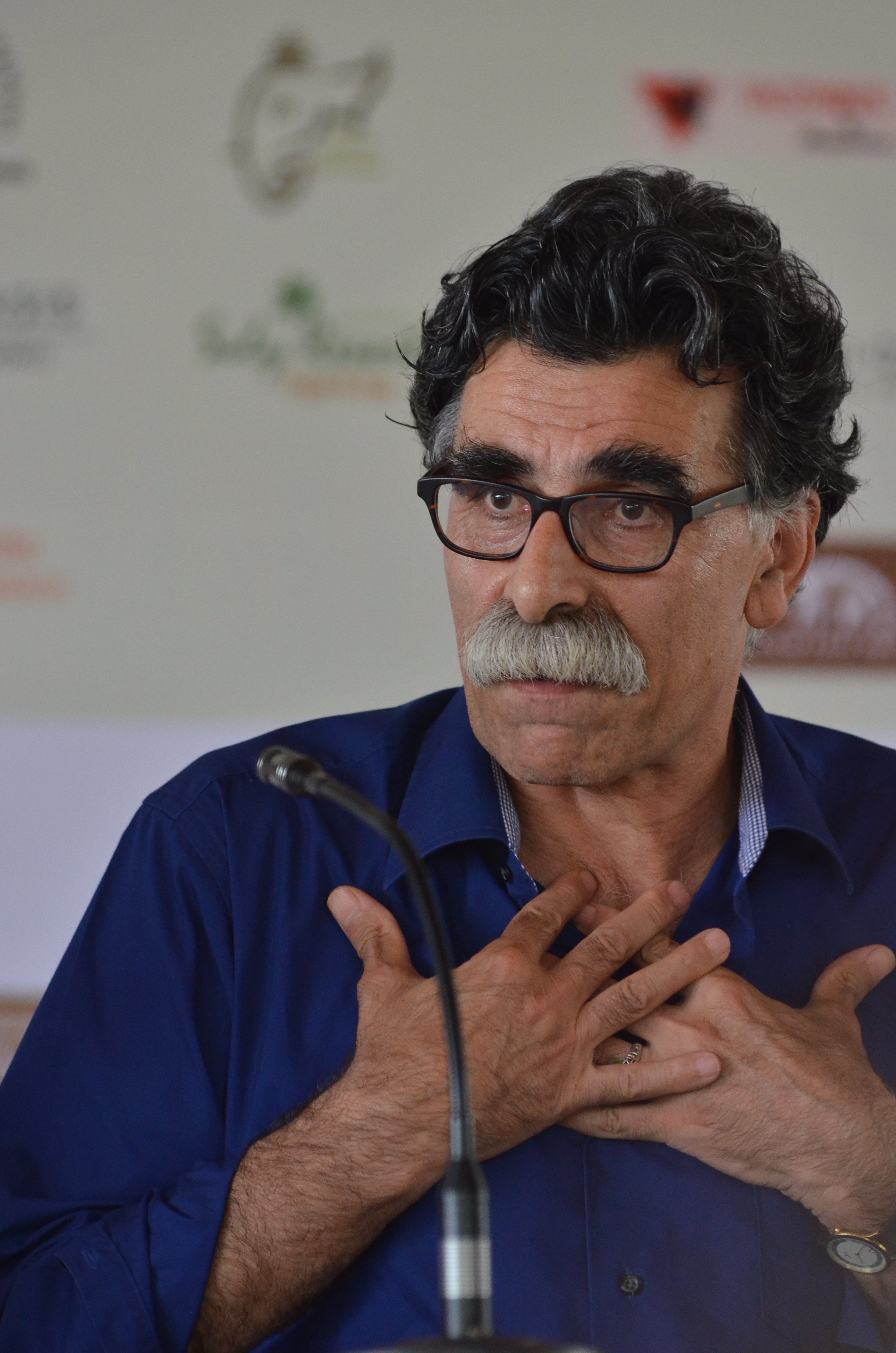 Ubud Writers & Readers Festival 2012. Image credit Anggara Mahendra.